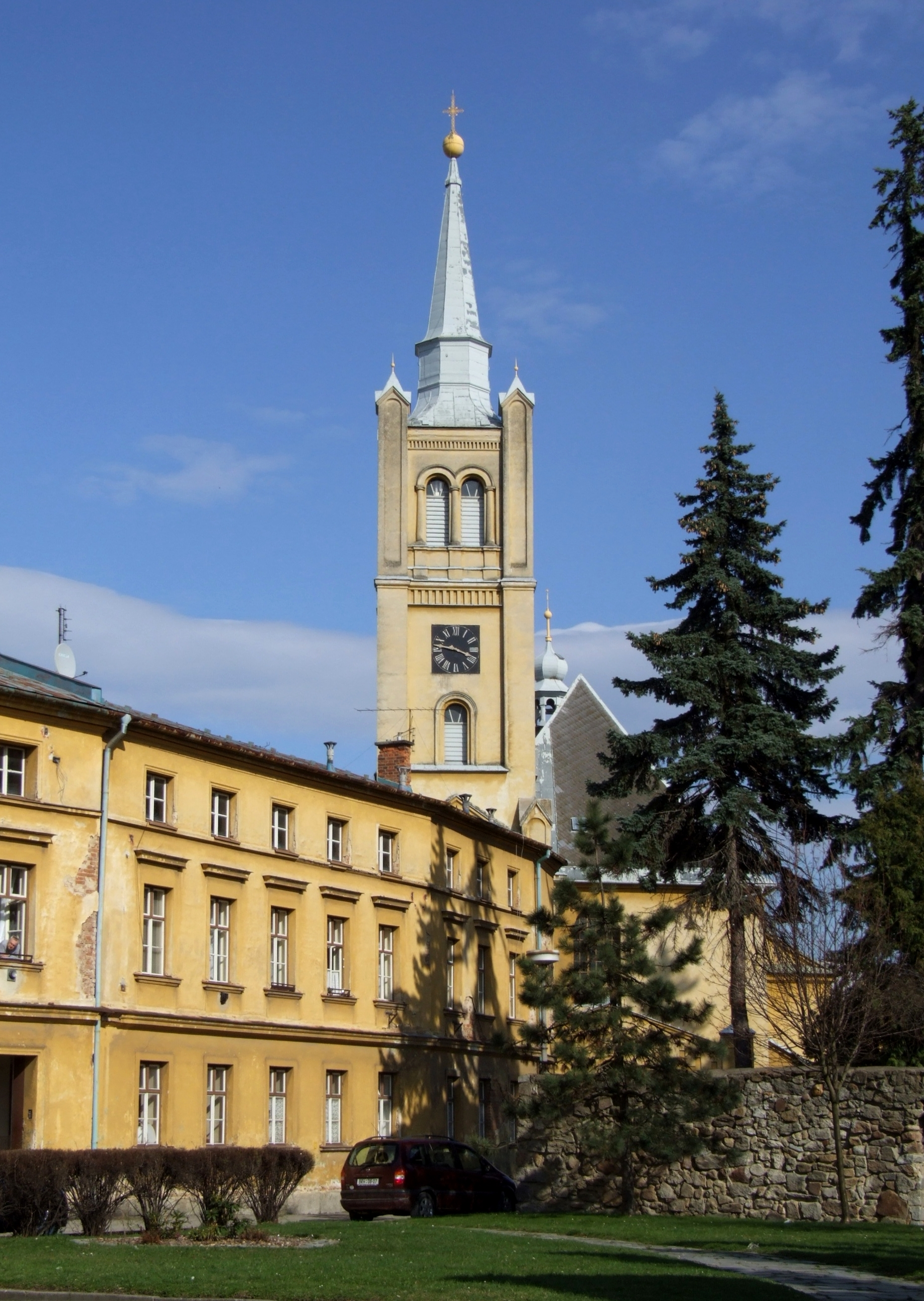 Vidnava (Weidenau) - tower of St. Catherine church and part of city walls